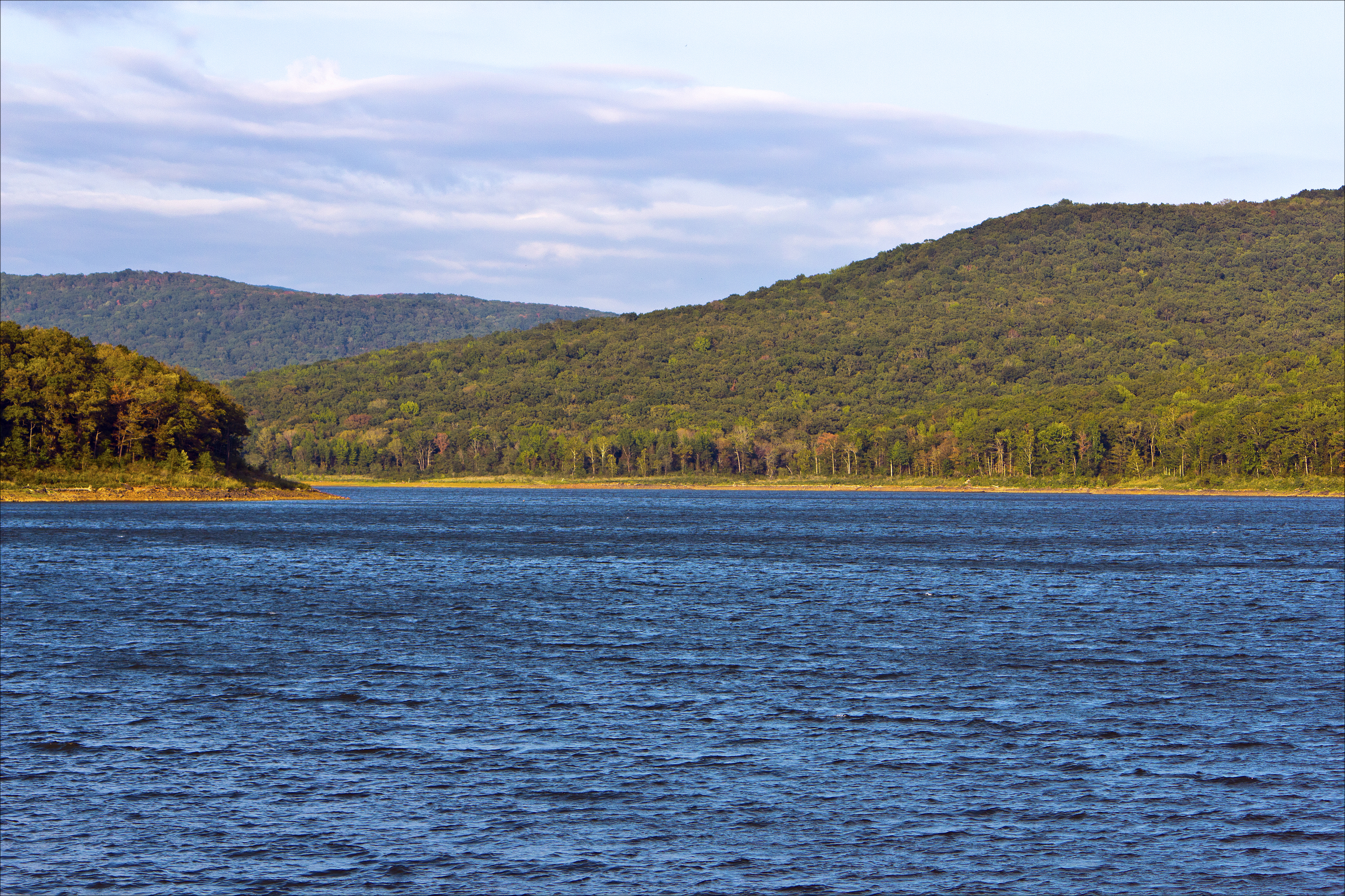 Lake Fort Smith with the Boston Mountains in the background. Taken near Mountainburg, Arkansas, USA.